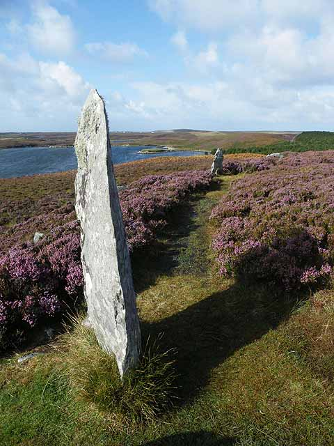 Pobull Fhinn. Stone circle on the southern slopes of Beinn Langais. Loch Langais can be seen in the distance.